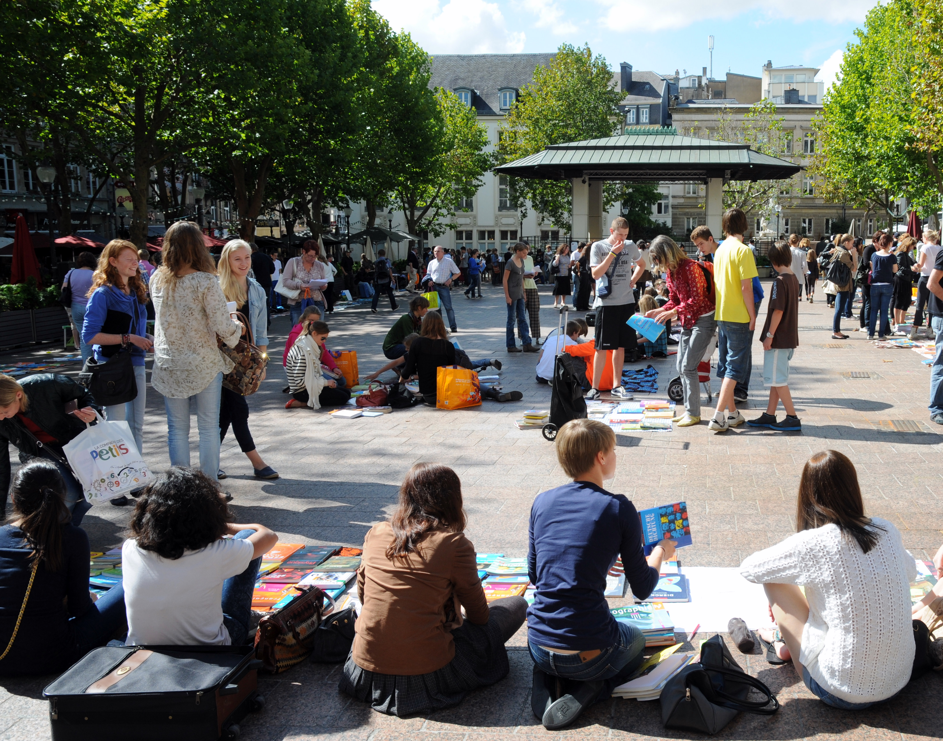 Bichermaart on the Place d'Armes in Luxembourg City, where kids sell their used schoolbooks.